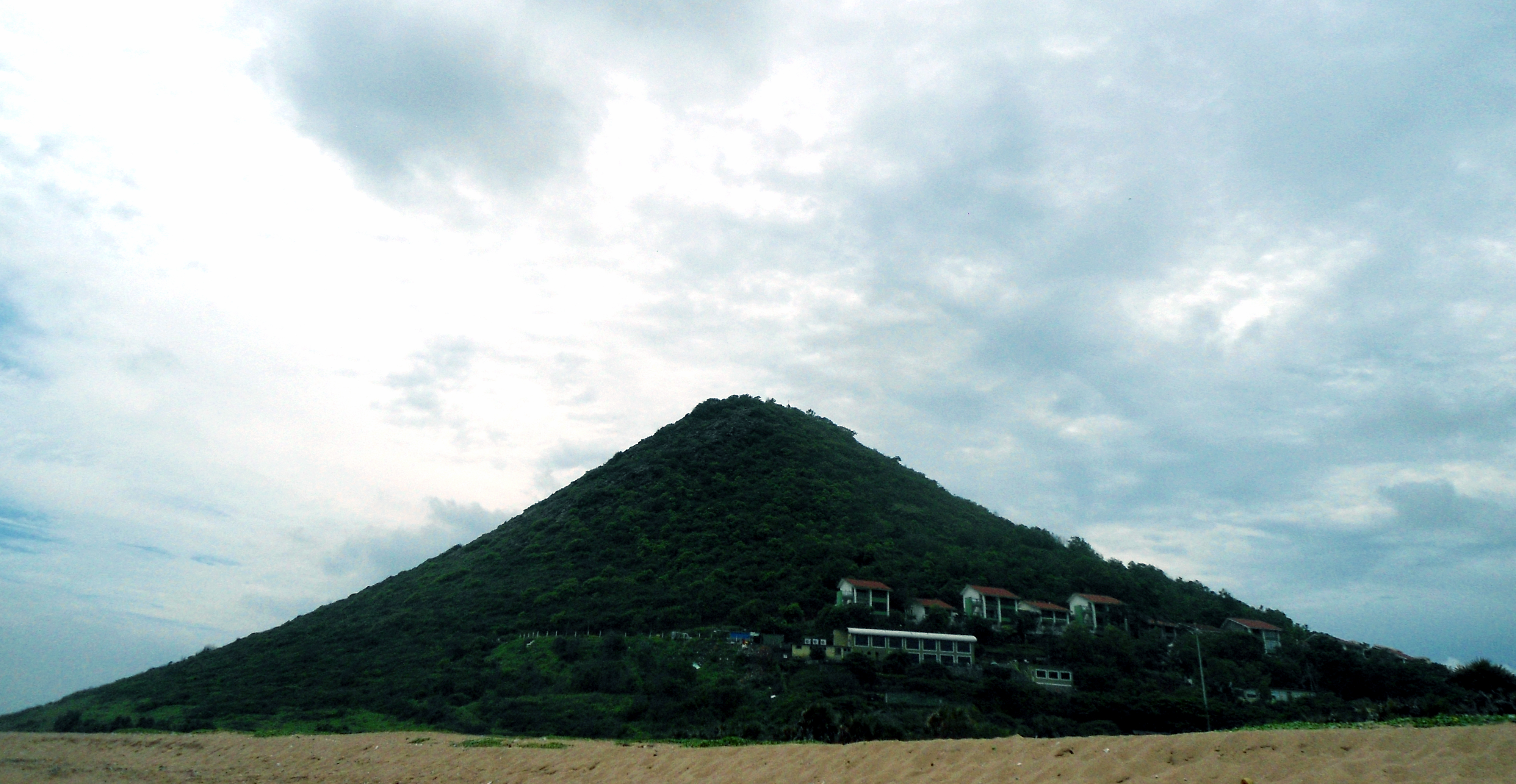 Rushikonda hill view from Beach, Rushikonda, Visakhapatnam